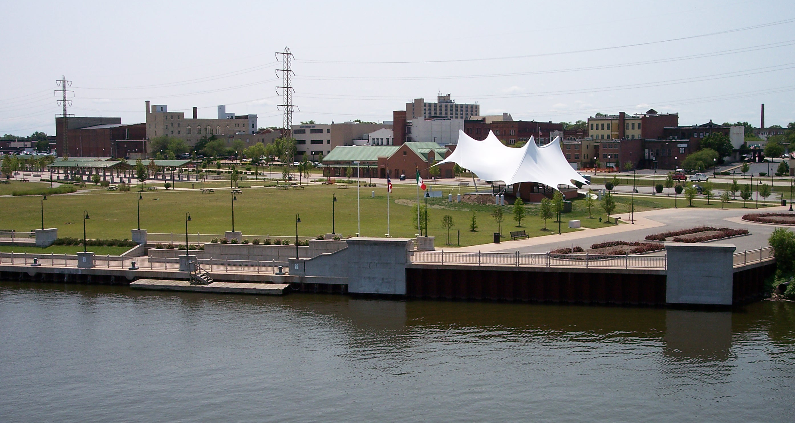 Downtown Lorain, Ohio and the Black River